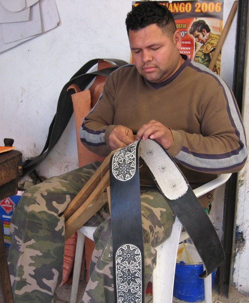 Example of a talabateria worker stitching piteado in Colotlan, Jalisco